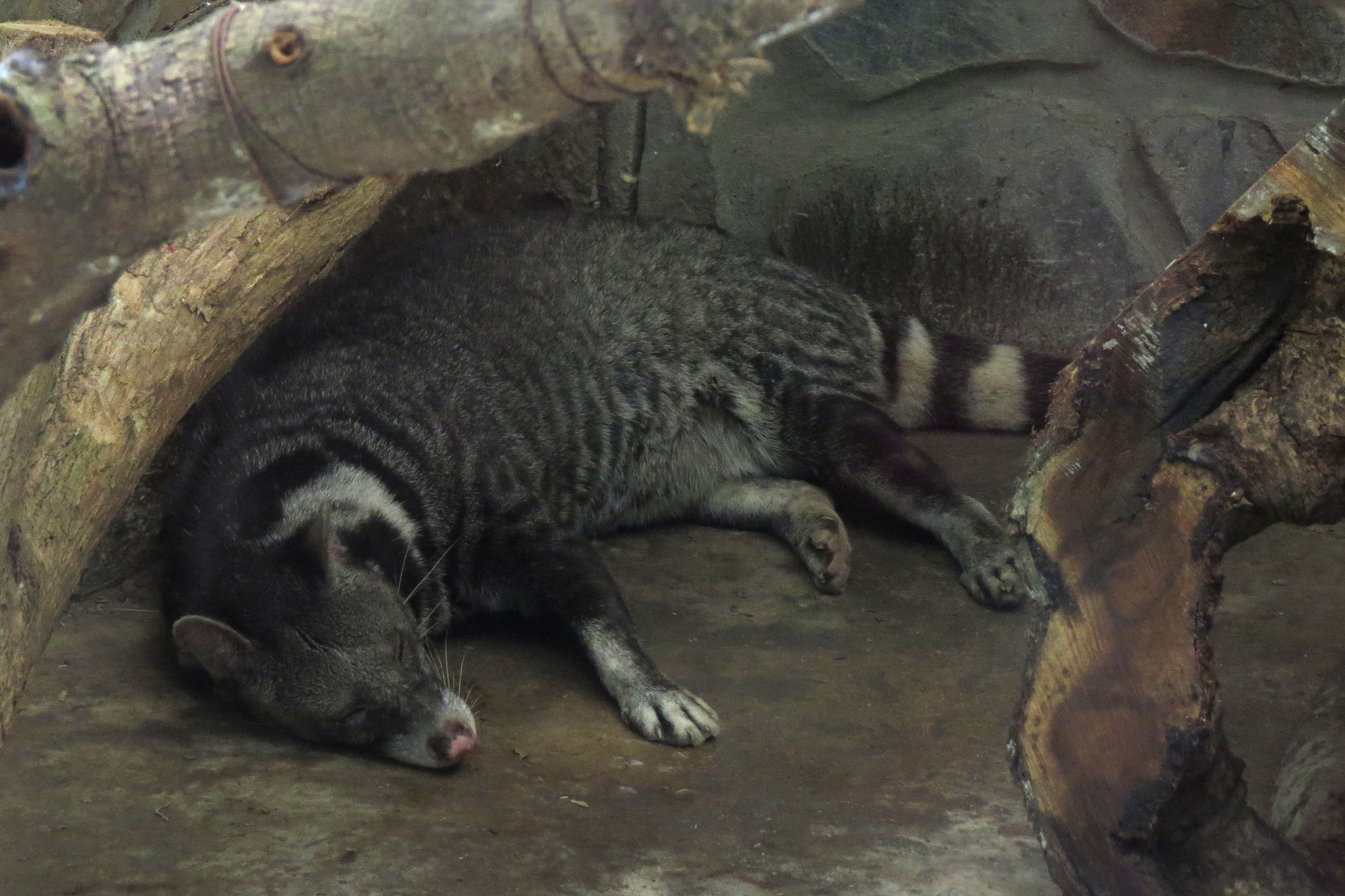 Large-spotted Civet (Viverra megaspila), Saigon Zoo, Vietnam